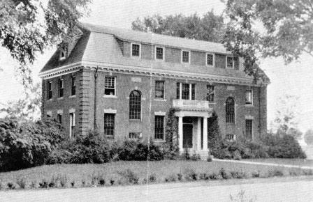 Early photo of Phi Sigma Kappa's Alpha chapter, built in 1914 and located at the University of Massachusetts Amherst. From The Signet magazine. For use on the Phi Sigma Kappa and related pages. The building was completely renovated in 2013-14. Other information From magazines collected by Edgar Rehnke, passed along to his younger brother Roswell Rehnke, and from Roswell to Thomas Jackson, historian.